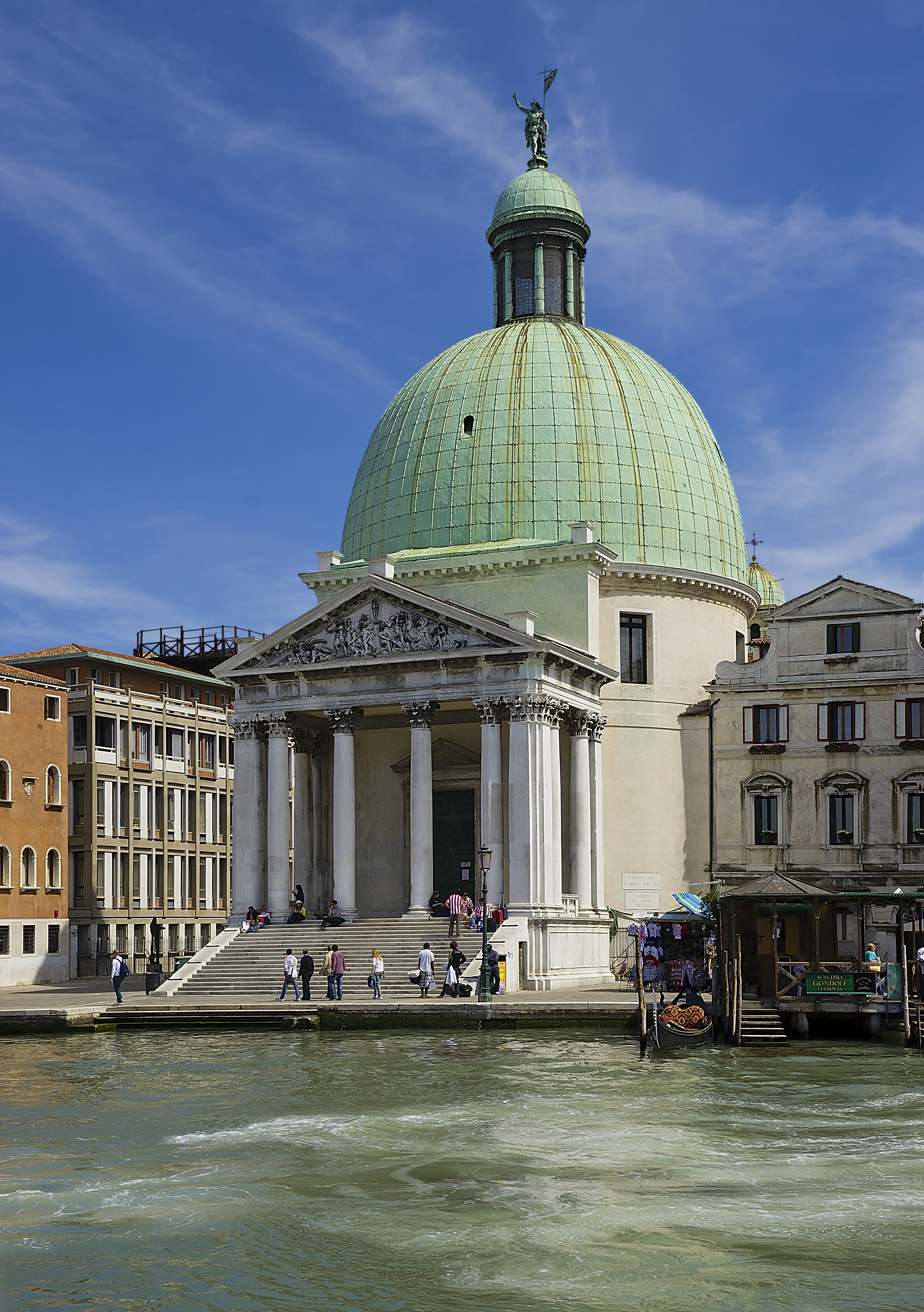 San Simeone Piccolo Eighteenth century by architect Giovanni Antonio Scalfarotto and the Scuola dei Tessitori di Panni di Lana, Venice.